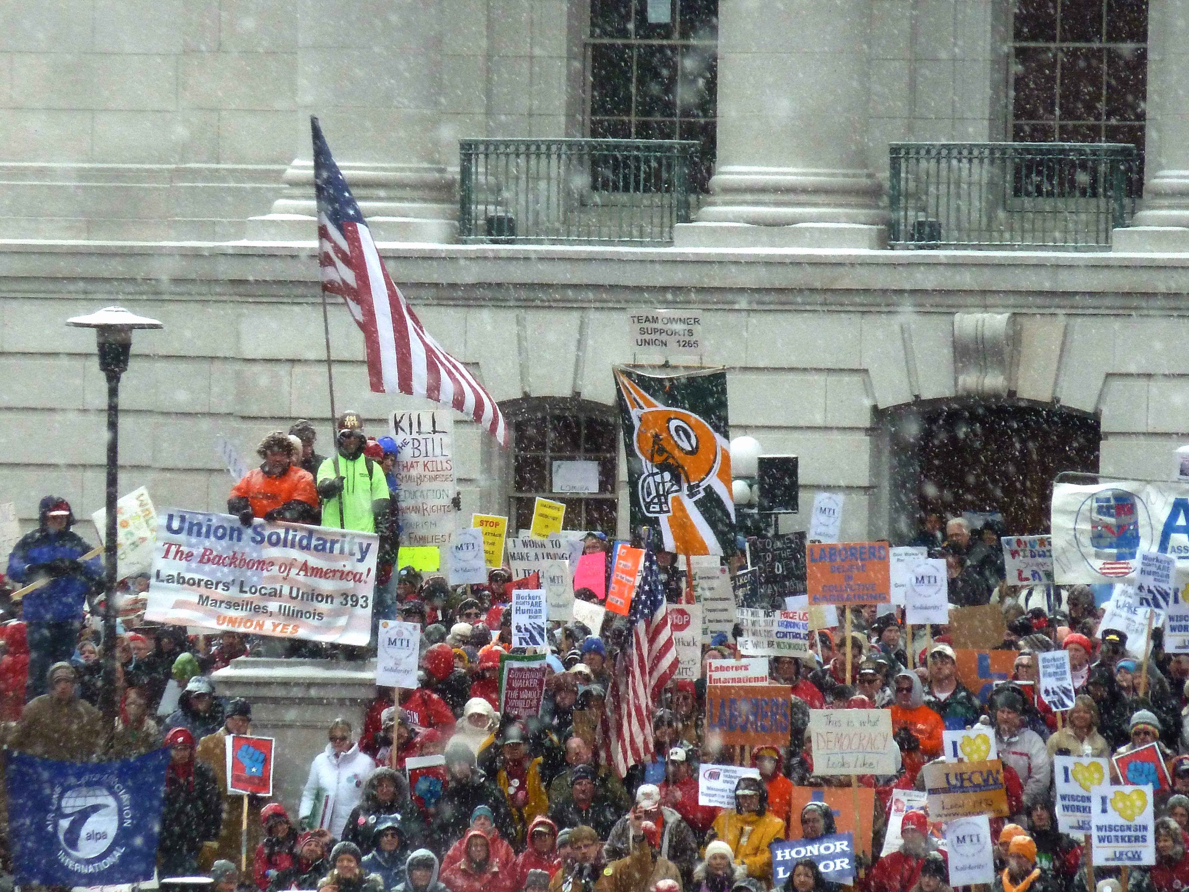 Thousands of people gather outside of the Wisconsin state capitol building during the 2011 Wisconsin Budget Protests.